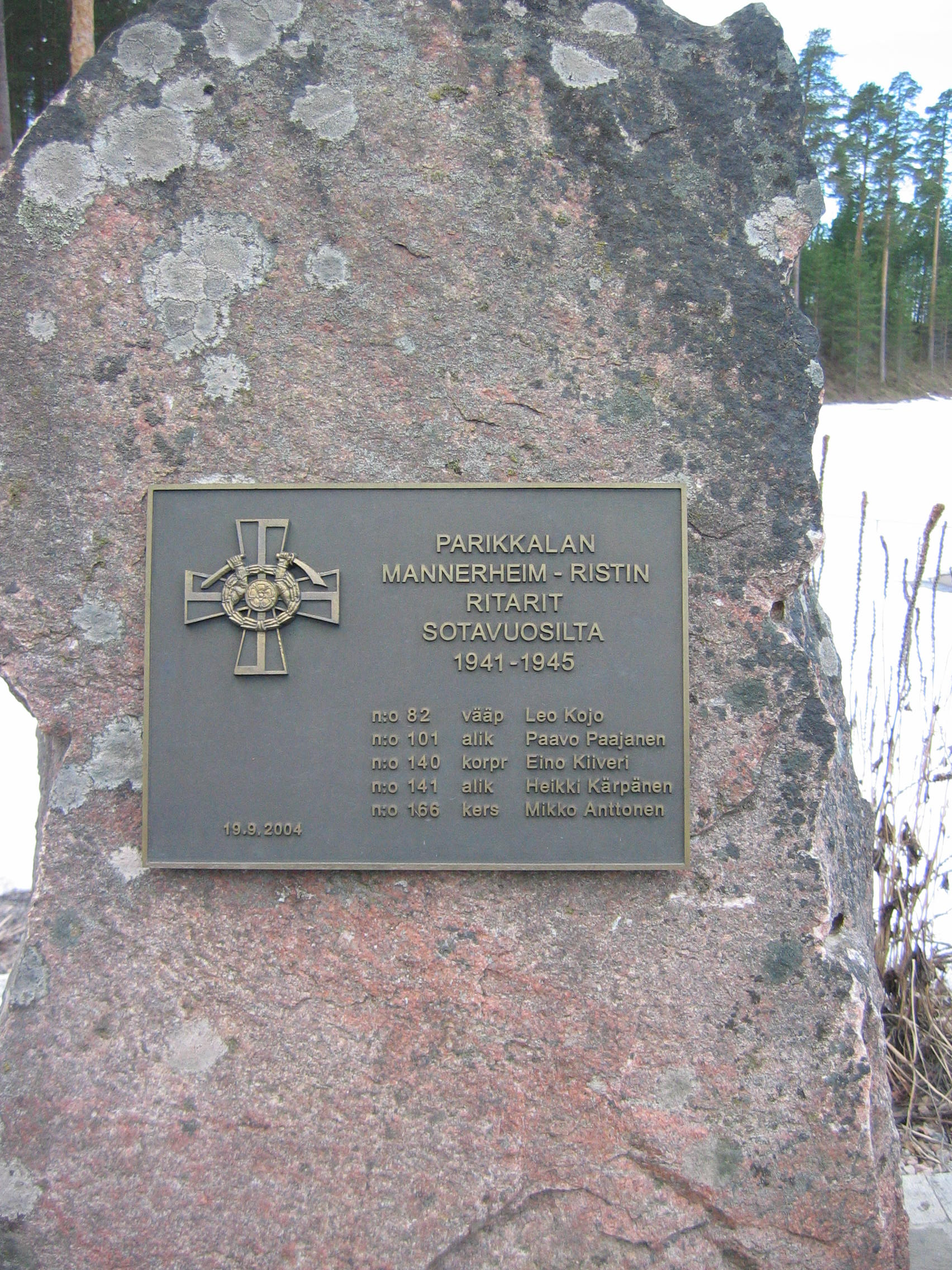 Memorial of the Mannerheim Cross Knights of Parikkala, Finland